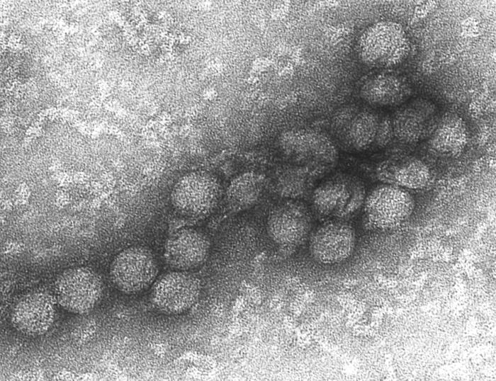 ID#: 2290 Description: An electron micrograph of the West Nile virus. West Nile virus is a flavivirus commonly found in Africa, West Asia, and the Middle East. It is closely related to St. Louis encephalitis virus found in the United States. The virus can infect humans, birds, mosquitoes, horses and some other mammals. Content Providers(s): CDC/Cynthia Goldsmith Creation Date: 2002 Copyright Restrictions: None - This image is in the public domain and thus free of any copyright restrictions. As a matter of courtesy we request that the content provider be credited and notified in any public or private usage of this image.